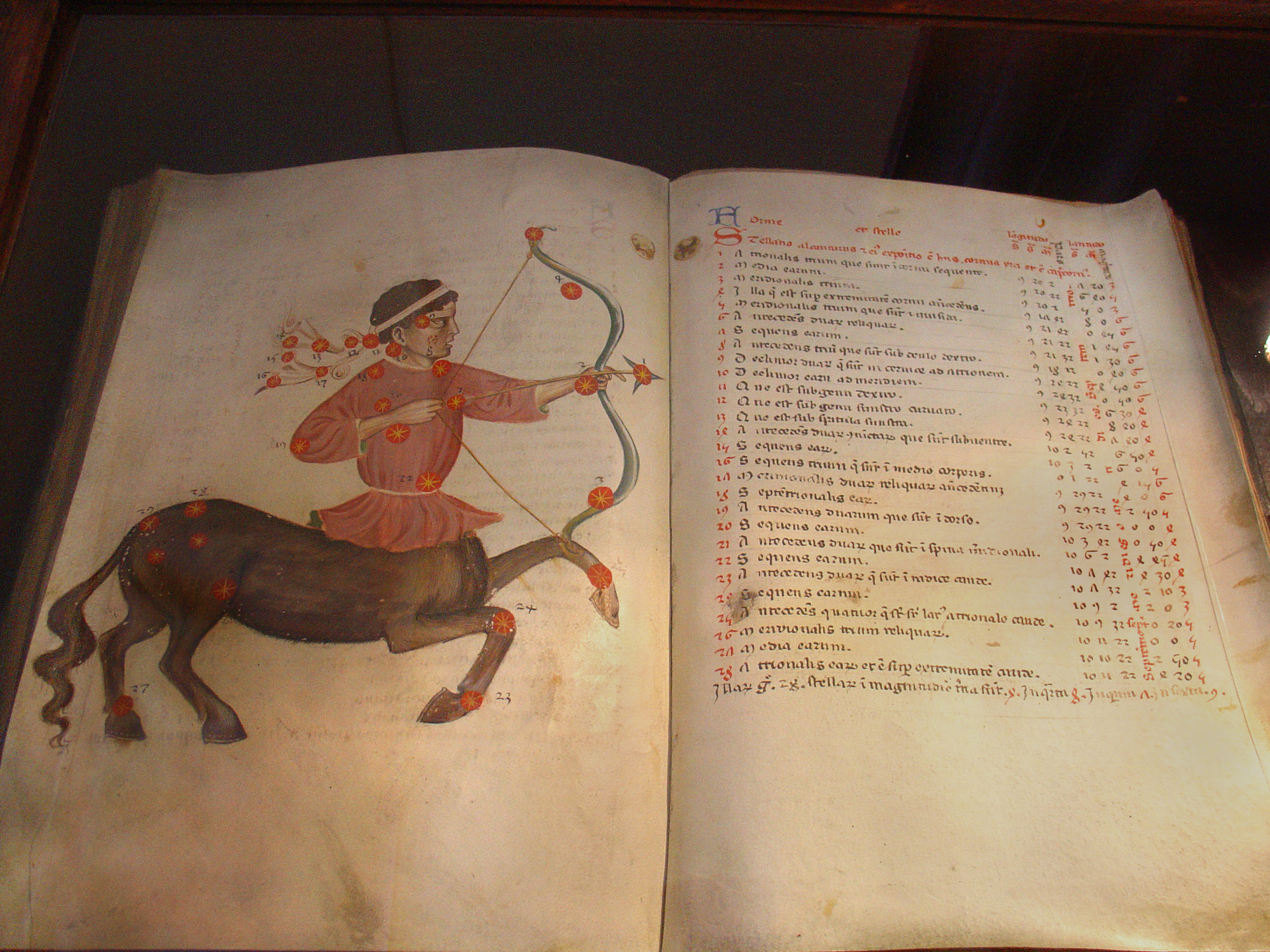 Astronomical atlas from “Al Sufi”. Middle of the XIVth century, from nord of Italy. Exhibited in Strahov monastary's library, Prague.